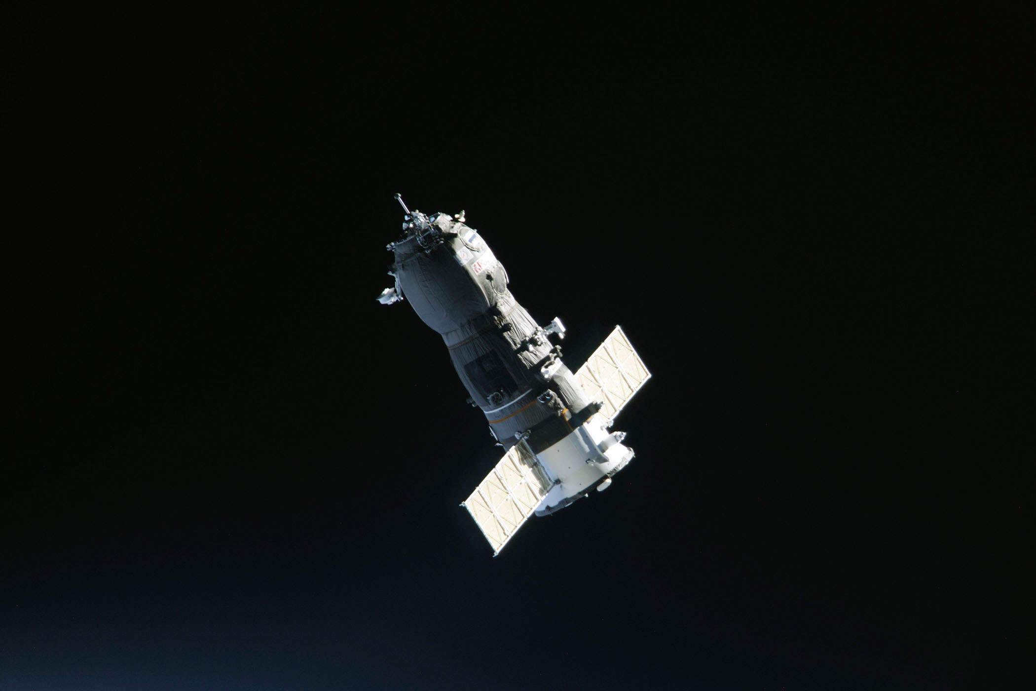 The unpiloted ISS Progress 38 resupply vehicle approaches the International Space Station, bringing almost two tons of food, fuel, oxygen, propellant and supplies for the Expedition 24 crew members aboard the station. The attempted docking on July 2, 2010, was aborted when telemetry between the Progress and the space station was lost about 25 minutes before its planned docking. As a result, the Progress vehicle continued on its trajectory and glided past the space station. Later, the Progress successfully docked to the aft end of the Zvezda Service Module at 12:17 p.m. (EDT) on July 4, 2010. The docking was executed flawlessly by Progress' Kurs automated rendezvous system.